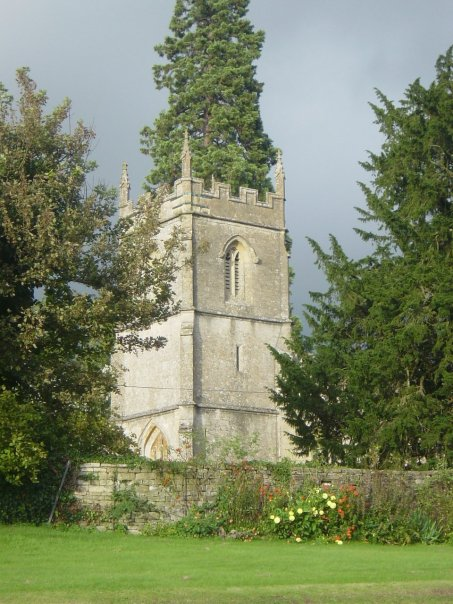 St Peter's Church, which is situated in the heart of the village and the SChool grounds. It is also the Parish Church.